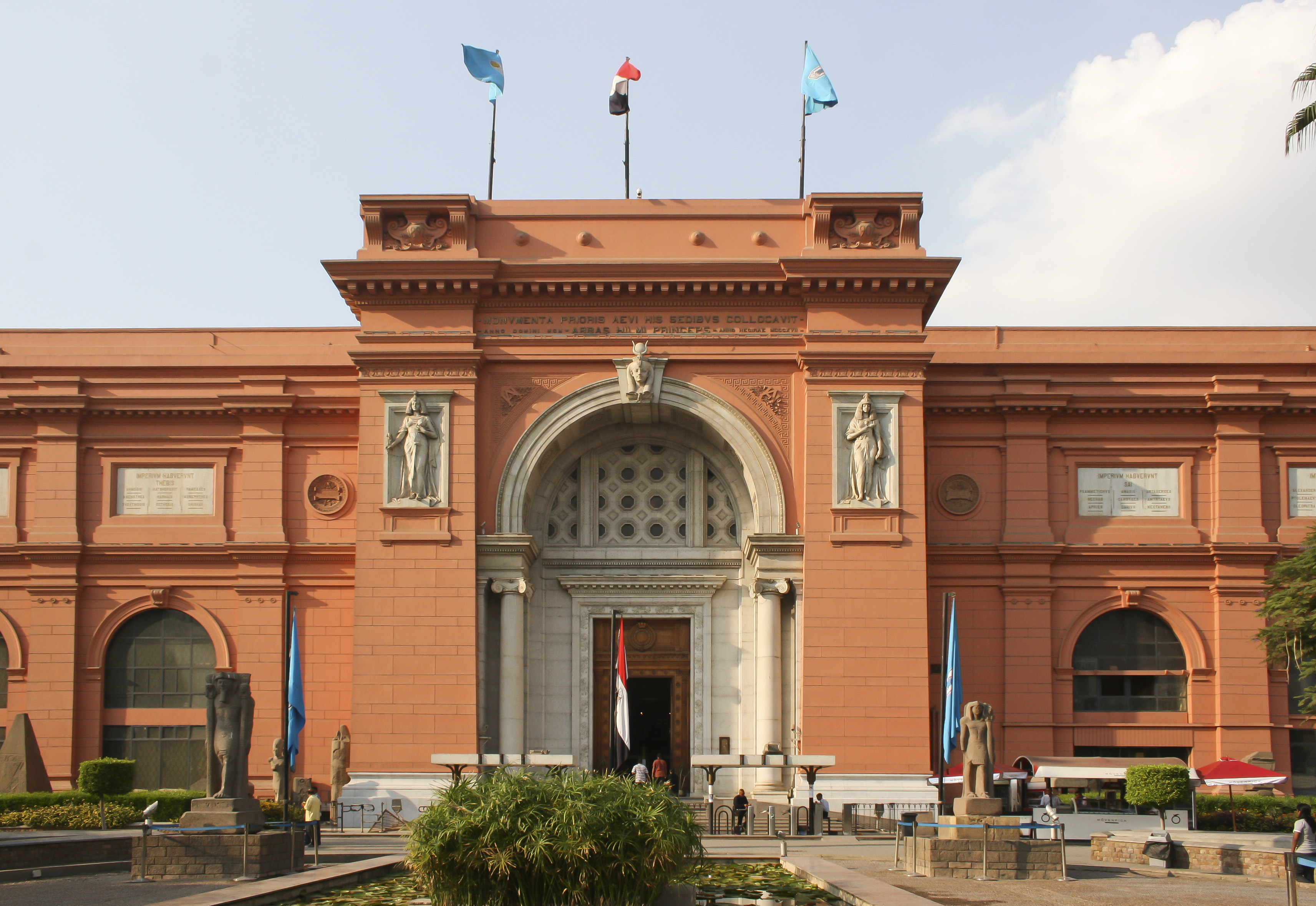 Facade of the Egyptian Museum, Tahrir Square, Cairo, Egypt